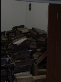 The stae of document management at Walter Rodney Archive Centre Guyana 2015